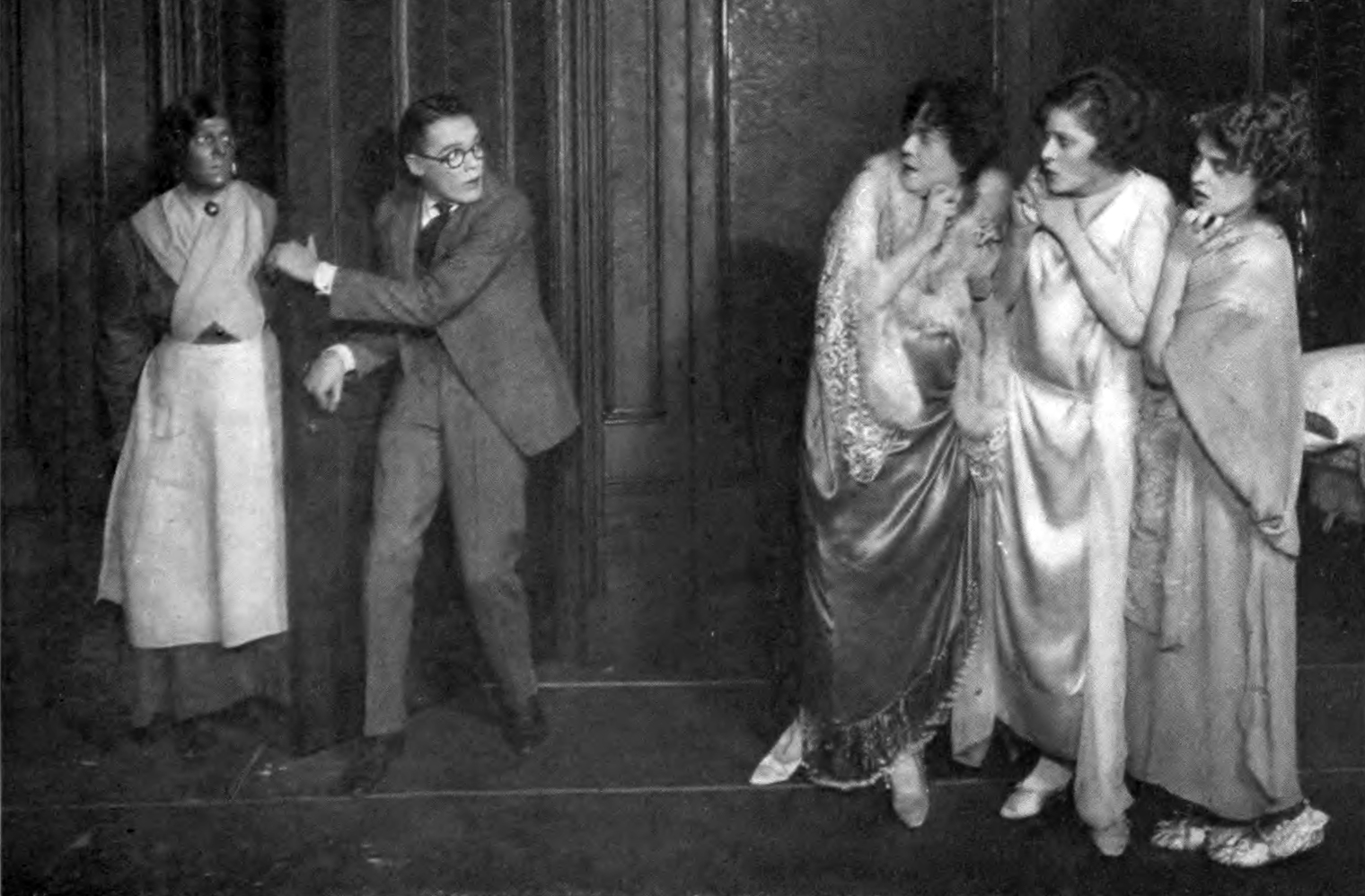 Promotional photograph for the 1922 play The Cat and the Canary Left to right: Blanche Friderici, Henry Hull, Beth Franklyn, Jane Warrington and Florence Eldridge Caption reads as follows: Doors open by invisible agency, claw-like fingers clutch at the heroine's throat in the dark, and many other blood-curdling things happen in "The Cat and the Canary" at the National, one of the spookiest plays New York has seen in years